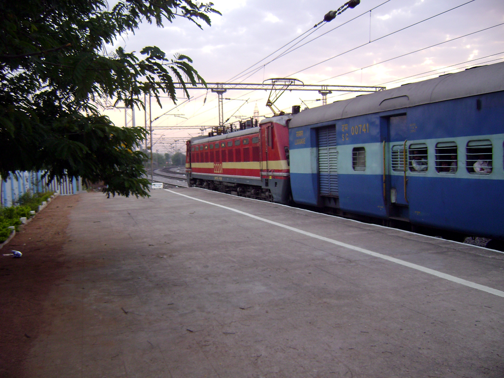 17406 Krishna Express with LGD WAP-4 loco at Moula-ali, Hyderabad